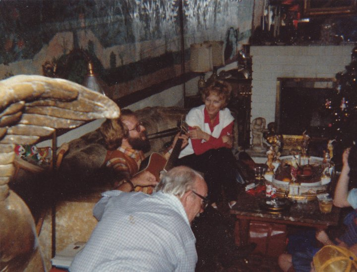 Professor Richard Thacker Morris, the late chairman of the Sociology Department at UCLA